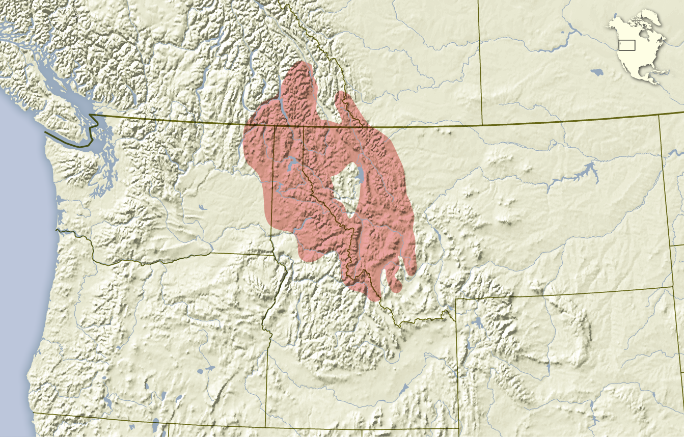 Distribution map of the red-tailed chipmunk